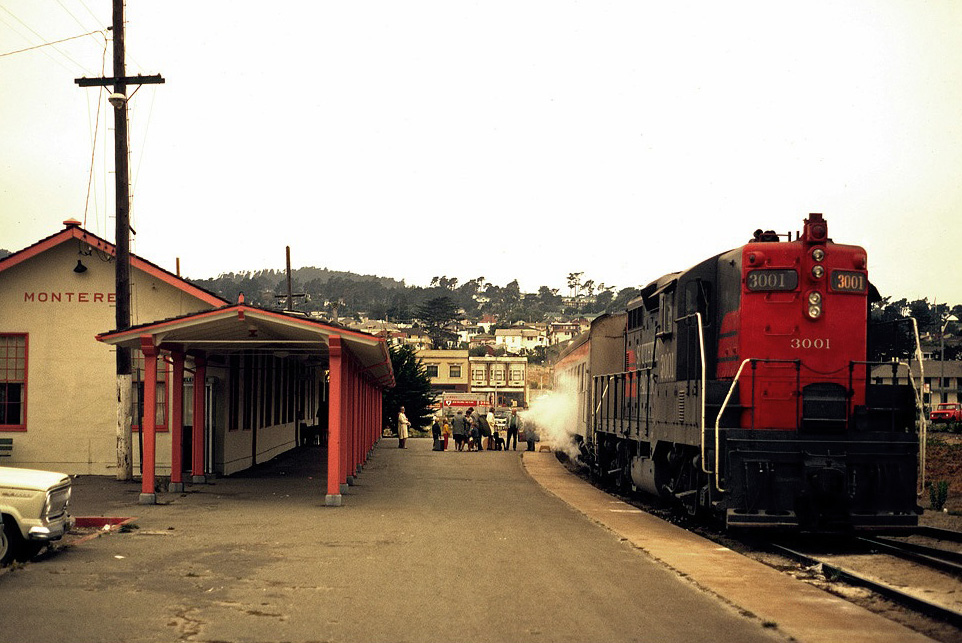 Southern Pacific #3001 with the Del Monte at Monterey in September 1970